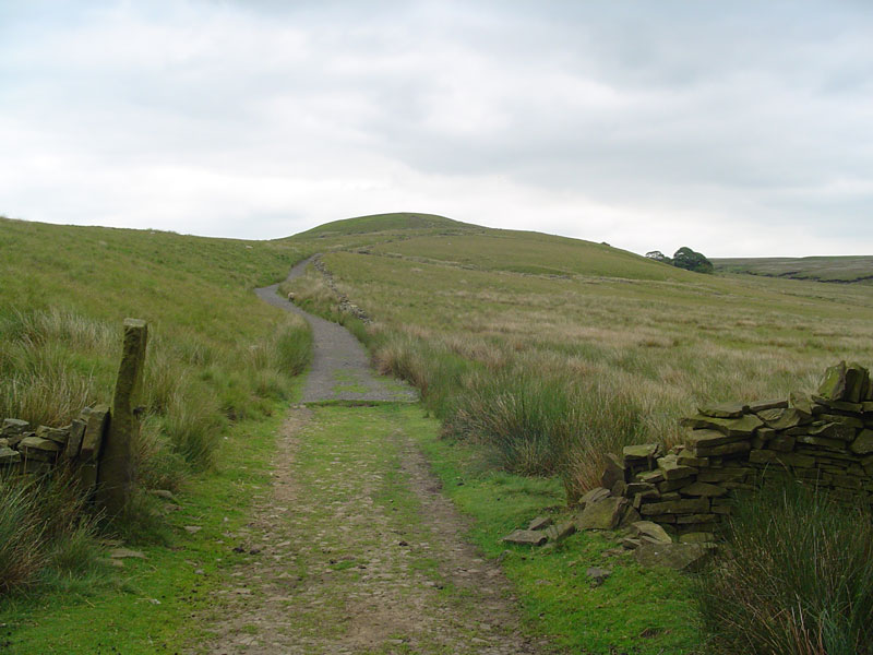 Great Hill, Lancashire. I took this picture and release it into the public domain.